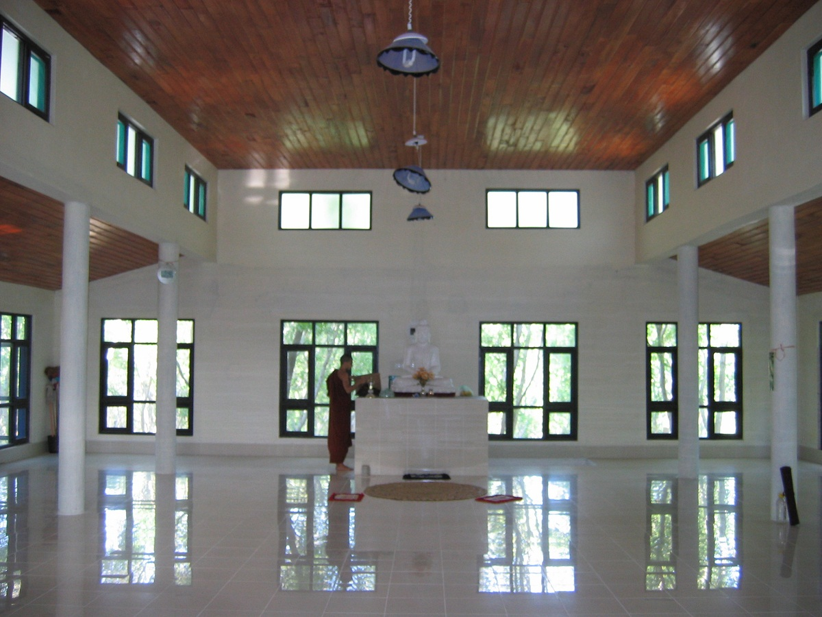 The first floor of the main meditation hall at Na Uyana Aranya, a Buddhist forest monastery in Sri Lanka.